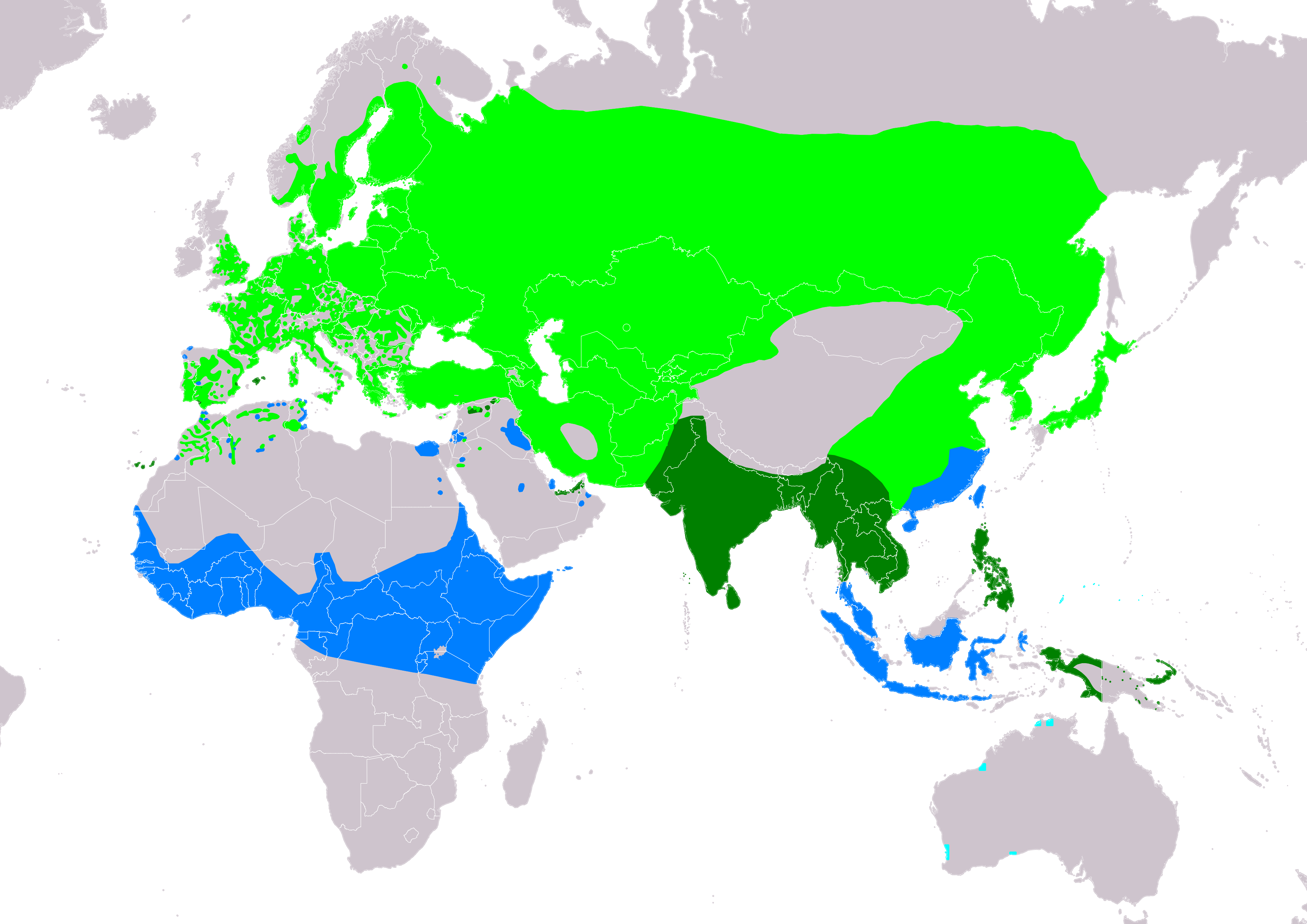 Distribution map of Little Ringed Plover (Charadrius dubius) according to IUCN version 2019.3; key: Legend: Extant, breeding (#00FF00), Extant, resident (#008000), Extant, passage (#00FFFF), Extant, non-breeding (#007FFF)